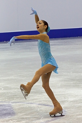 Evgenia Medvedeva at the Junior World Championships 2014 - Free program